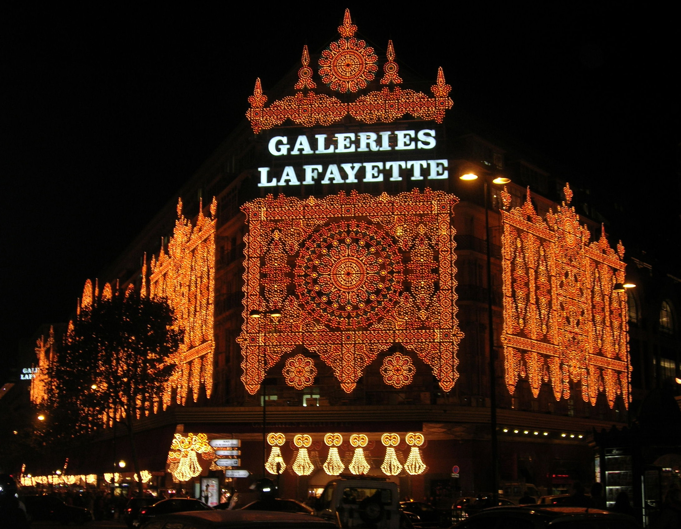 Description =Illuminations de Noel aux grand magasins parisiens Source =Photo taken by Remi Jouan Date =Novembre 2006 Author =Remi Jouan